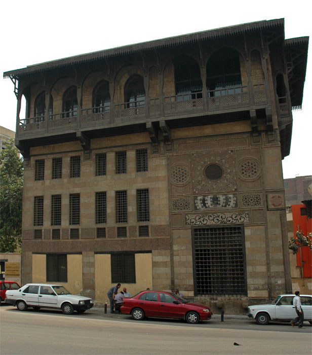 Qaytbay, sabil kuttab. Cairo, Egypt